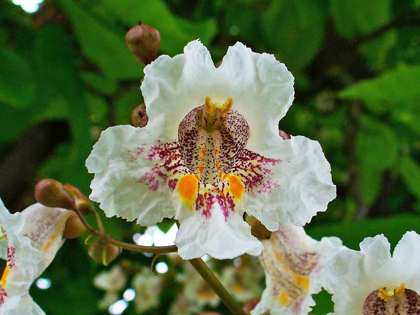 Catalpa bignonioides, Bignoniaceae, Southern Catalpa, Indian Bean Tree, flower; Karlsruhe, Germany.